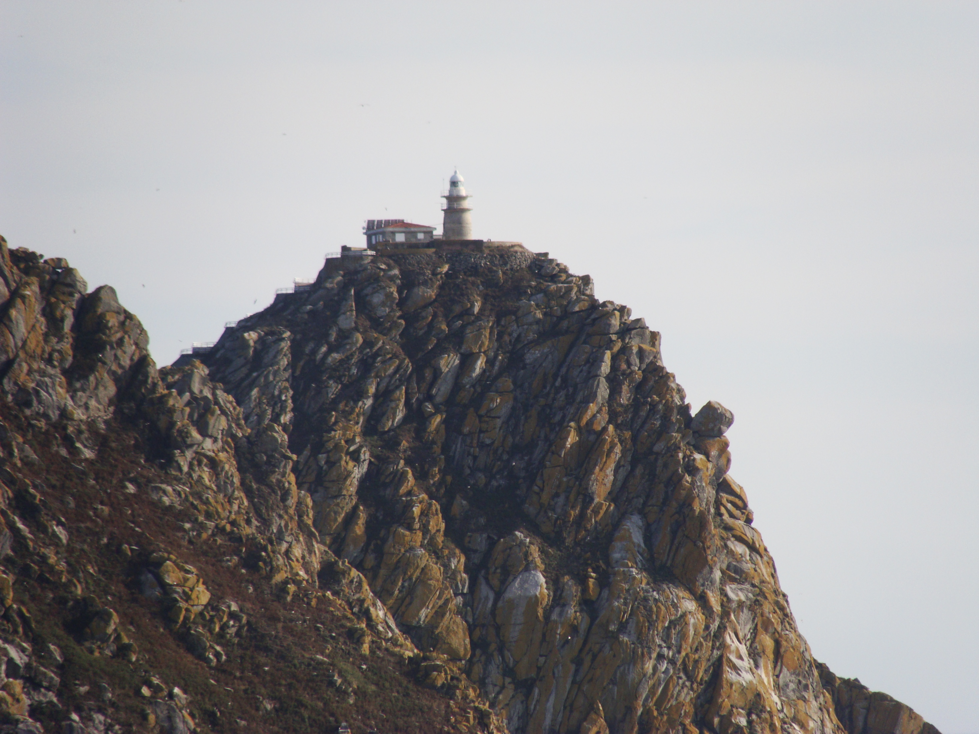 Faro de Cíes, in Cíes Islands, Pontevedra, Galicia, Spain.